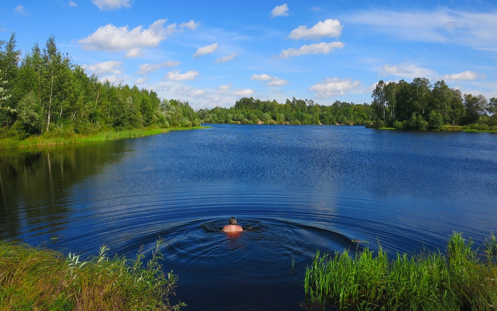 Kabina previous quarry, now filled with water and connected with Emajõgi River. (Luunja Parish, Tartu County, Estonia)